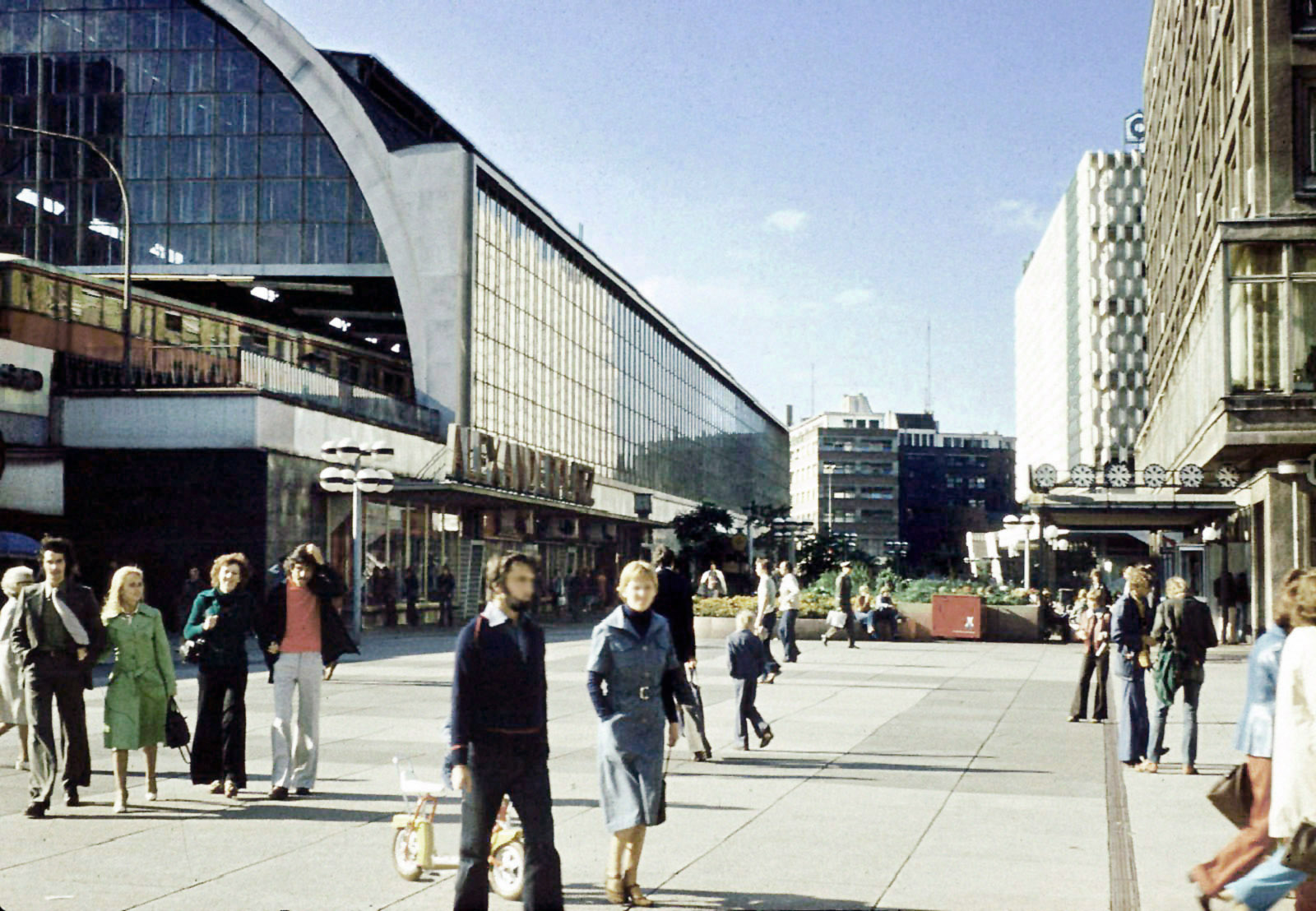 Alexanderplatz in East-Berlin in East Germany in the 1980s. View towards Trainstation Alexanderplatz (left), the Berolinhaus (right front) and department store 'Centrum' (right behind).